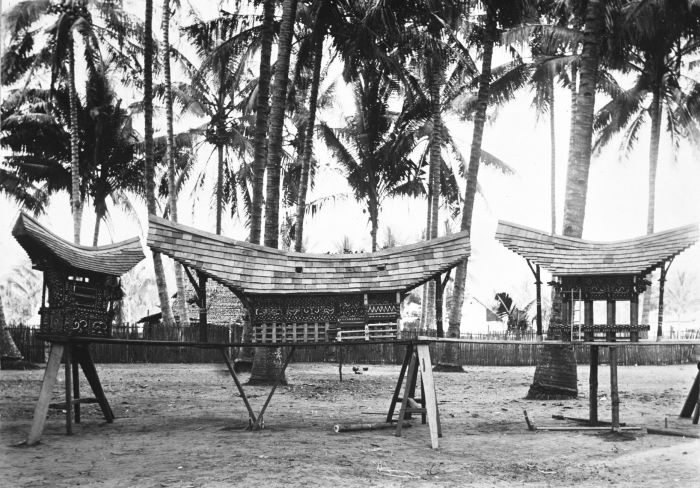 Scale models of Toraja houses, Celebes